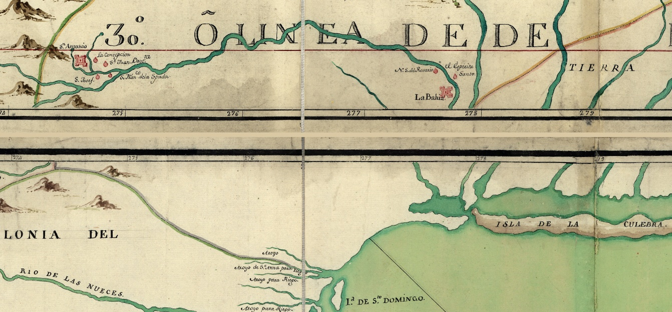 Urrutia, Lafora and Ruby, 1769 Map of the Frontier